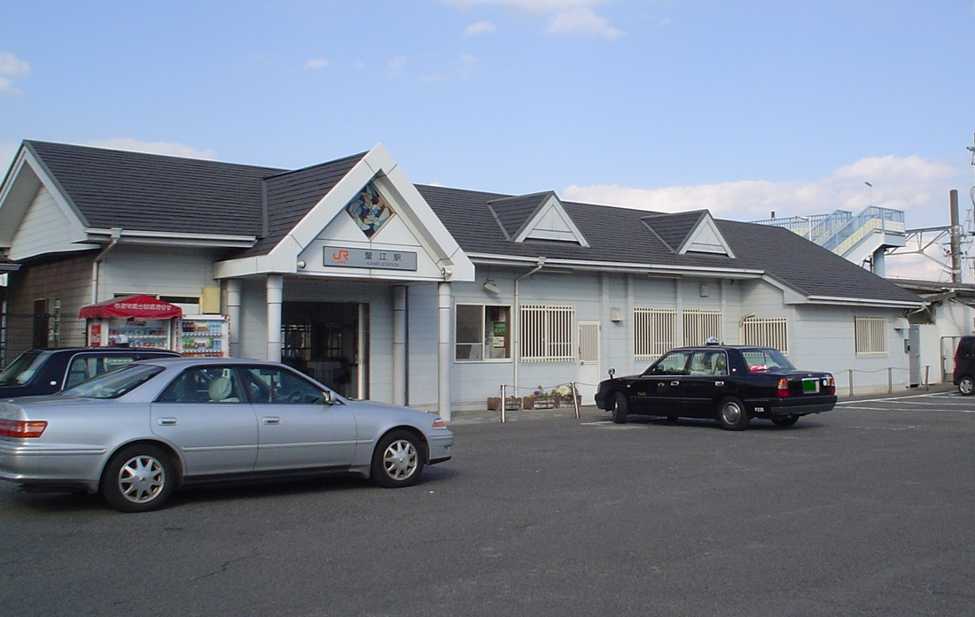 Kanie Station in Aichi pref, japan